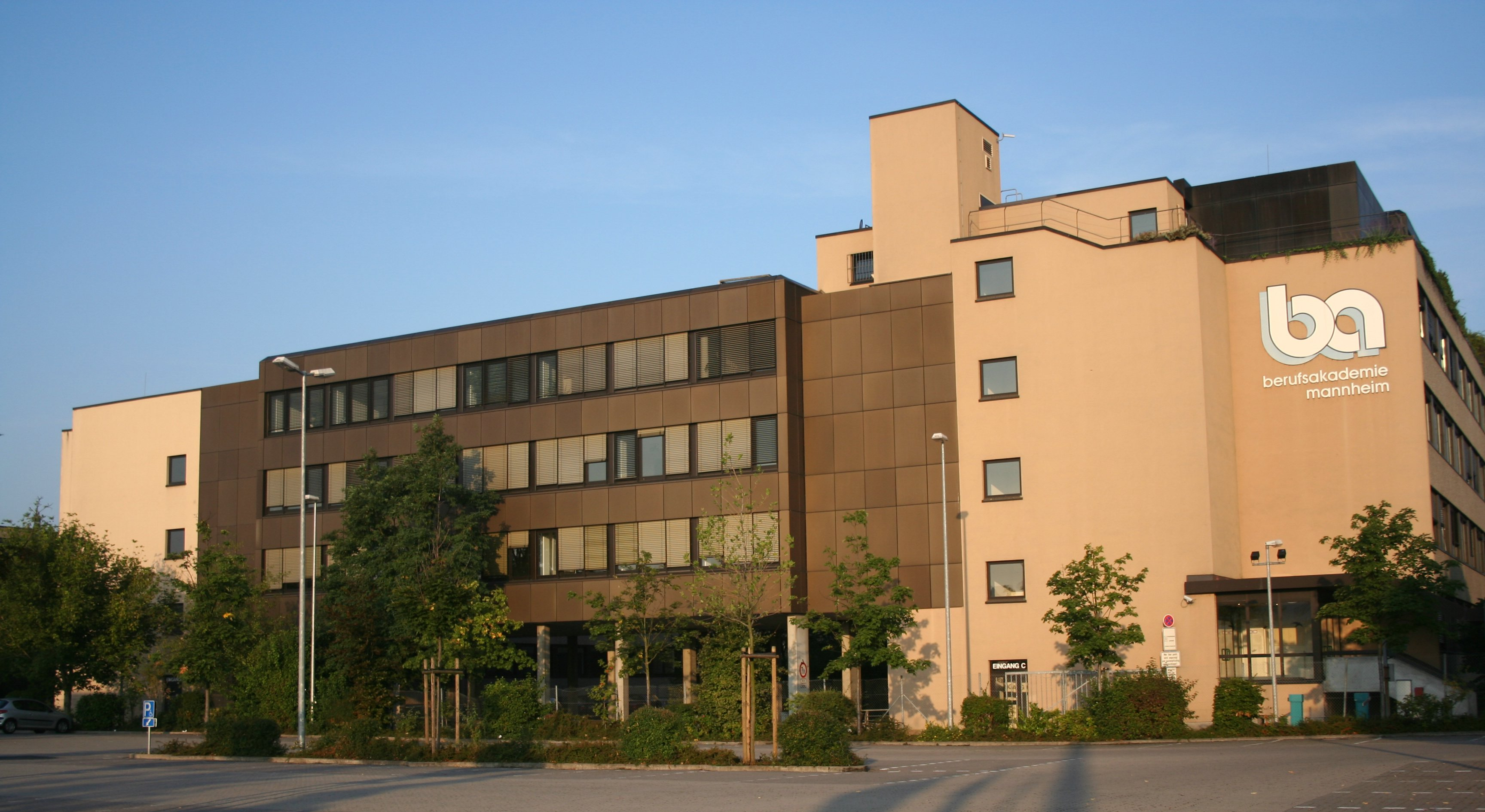 University of Cooperative Education Mannheim, Germany, Building Coblitzweg